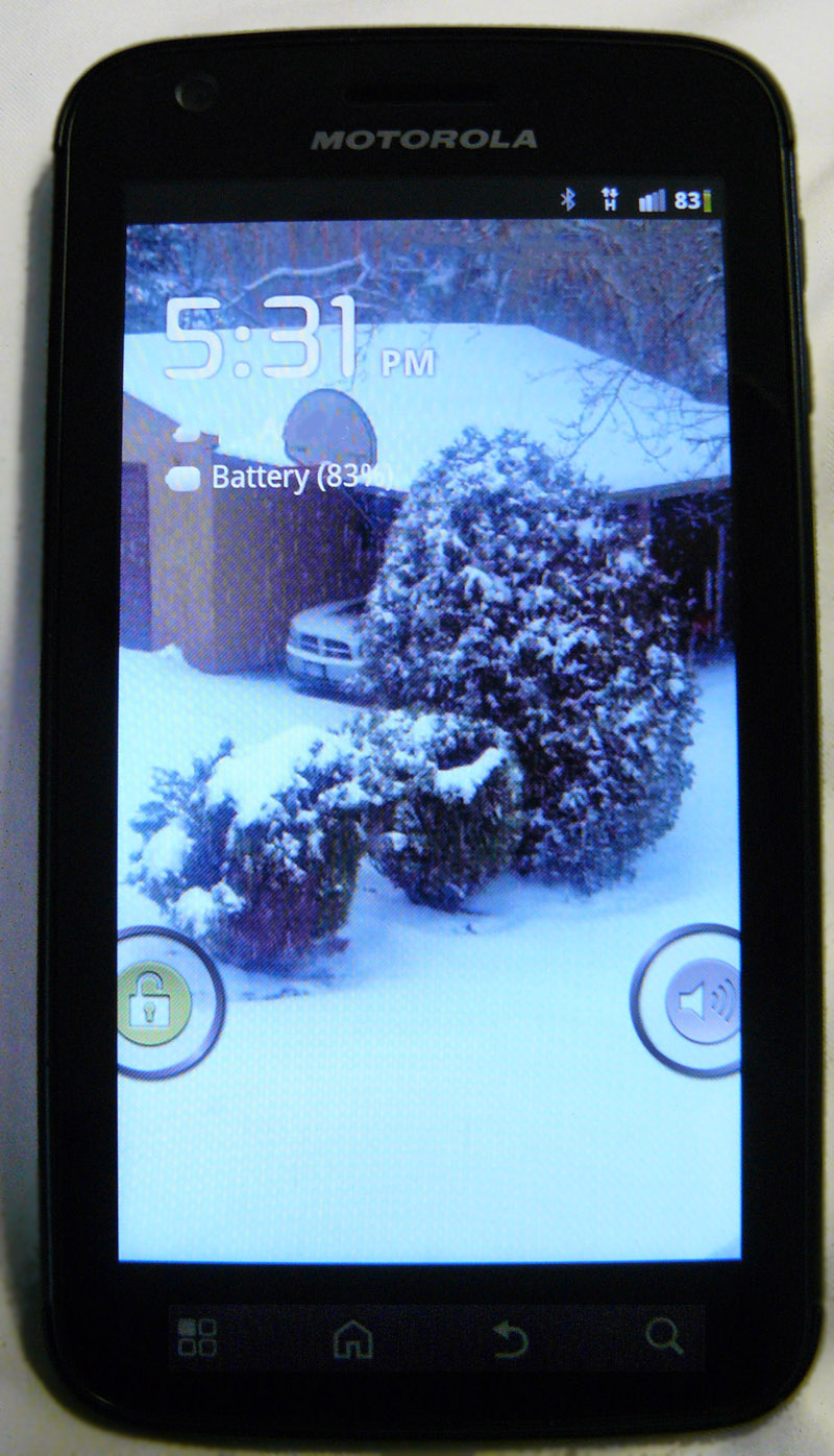 Picture of the front face of the Motorola Atrix, with visible capacitive buttons on it